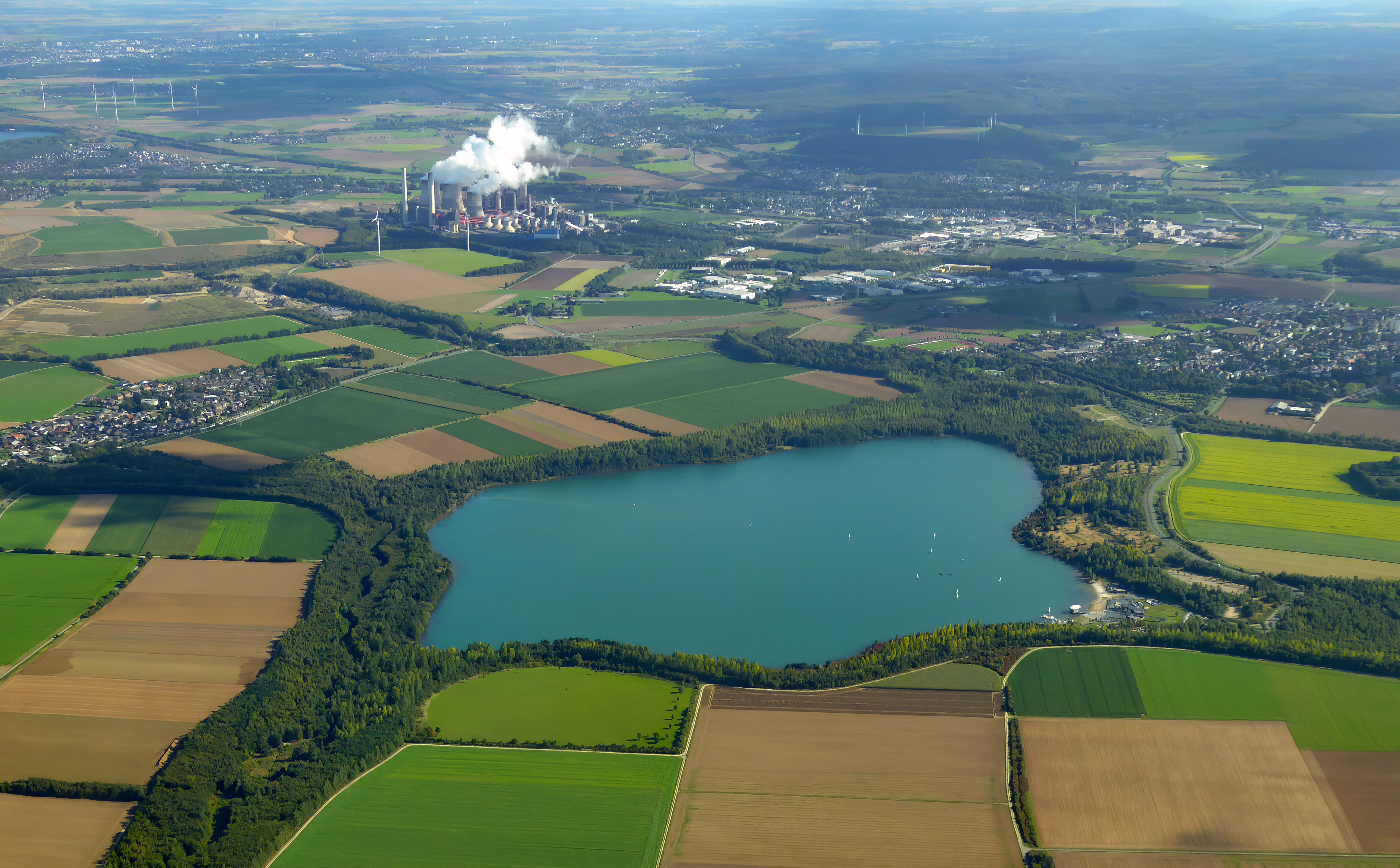 Aerial photo of the Blausteinsee, Germany